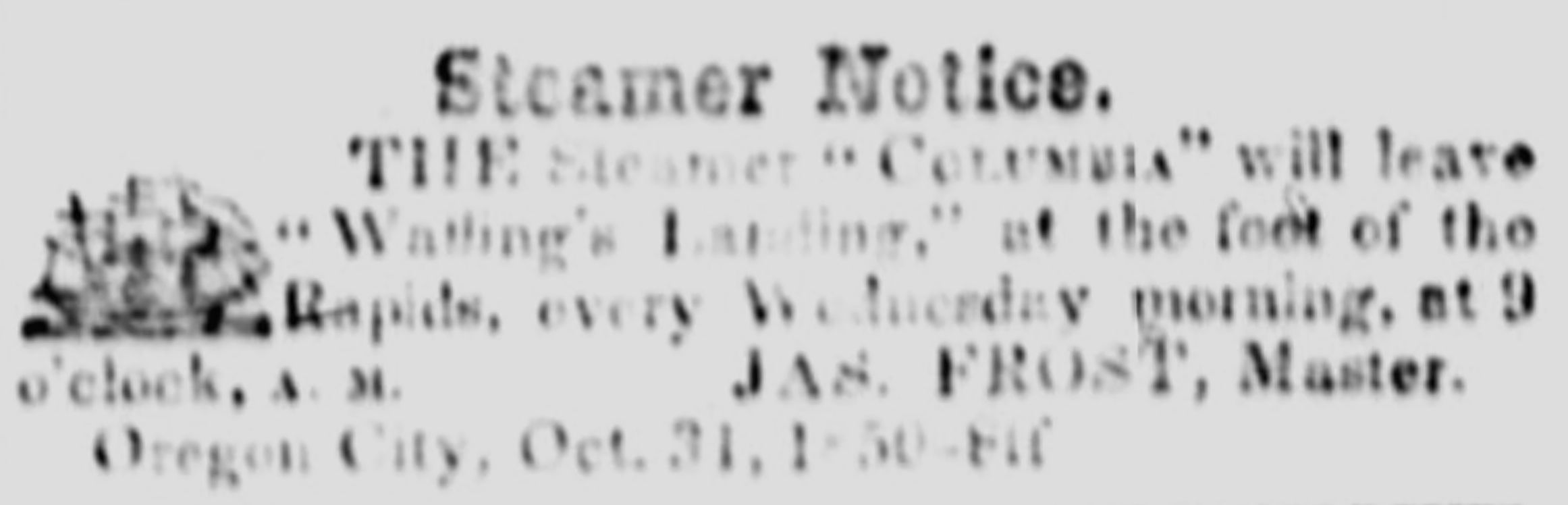 Advertisement for steamer Columbia, from 1851.